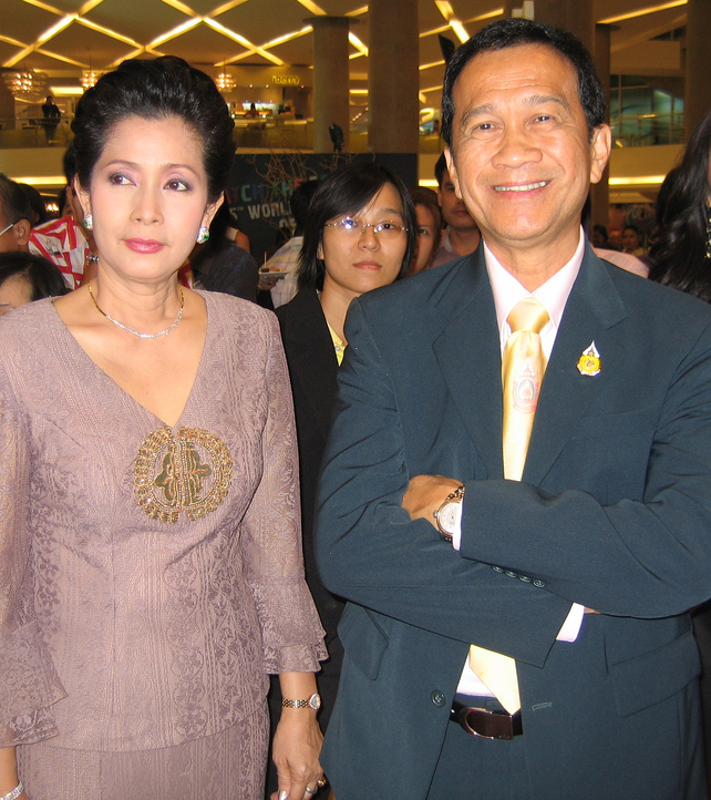 Thai actress Aranya Namwong, left, and her husband, singer-actor Setha Sirichaya, attend the opening of the 5th World Film Festival of Bangkok at Esplanade Cineplex.